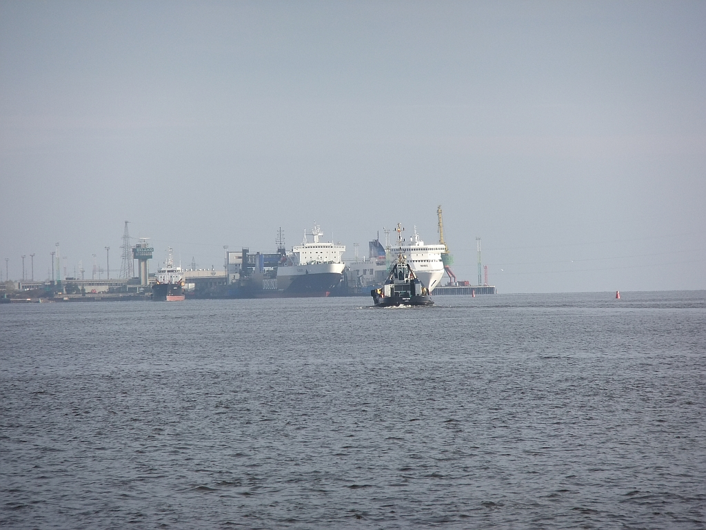 International Ferry Terminal in Klaipėda, Lithuania.